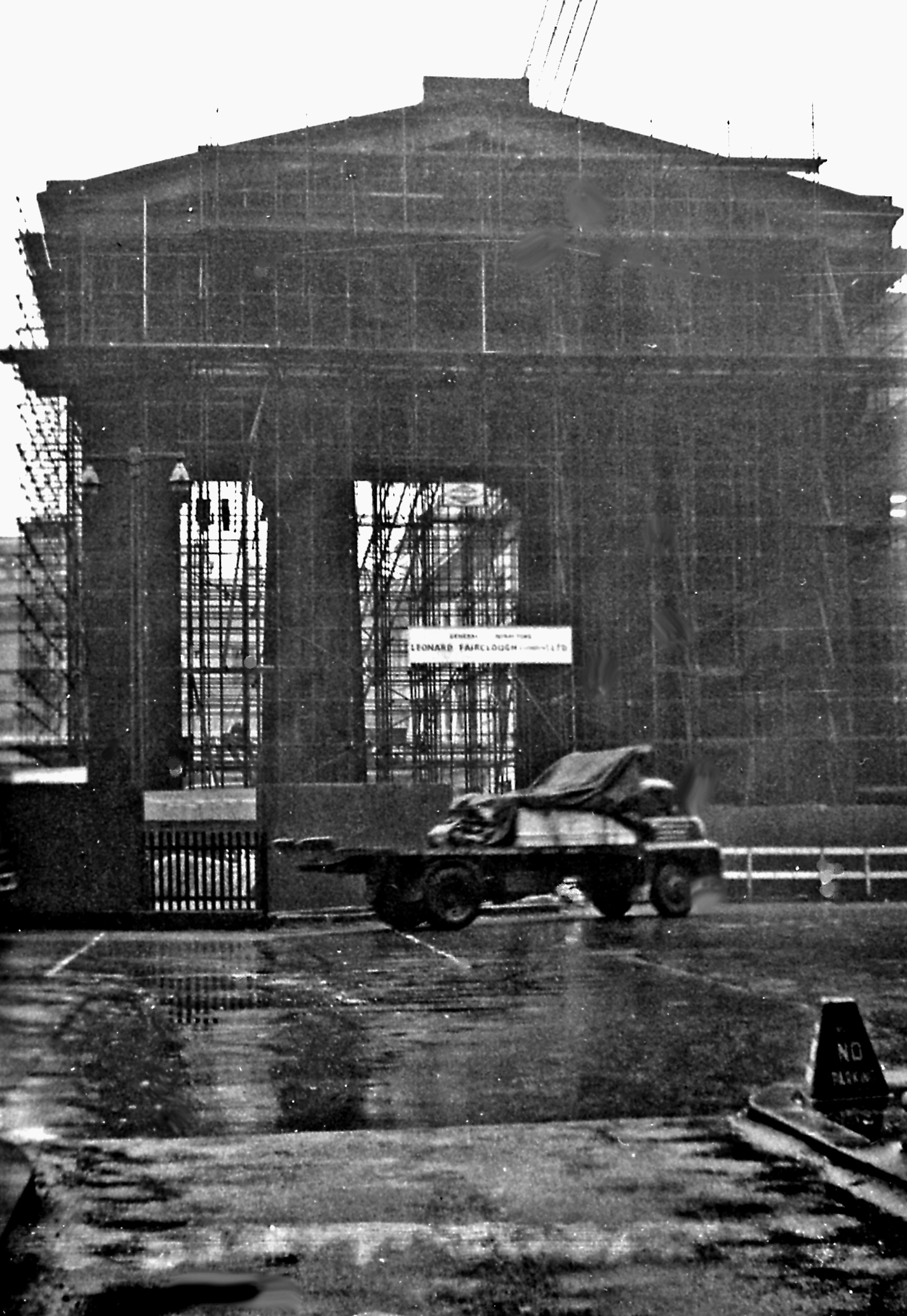 Doric Arch at Euston; demolition begins. View towards Euston Station. The famous Doric Arch was 'in the way' of the approaches to the New Euston and in spite of vigorous protests by many eminent people it was condemned in October 1961 by Ernest Marples, then Minister of Transport supported by the Conservative Prime Minister (Harold Macmillan). The breakers moved in on 6/11/61 I took this photograph on a wet 12 February 1962. When the new - and dreadful - 'Great Hall' had been completed in 1968 it was found that there was plenty of room after all.